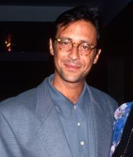 Picture of the Hon. Morgan Mason